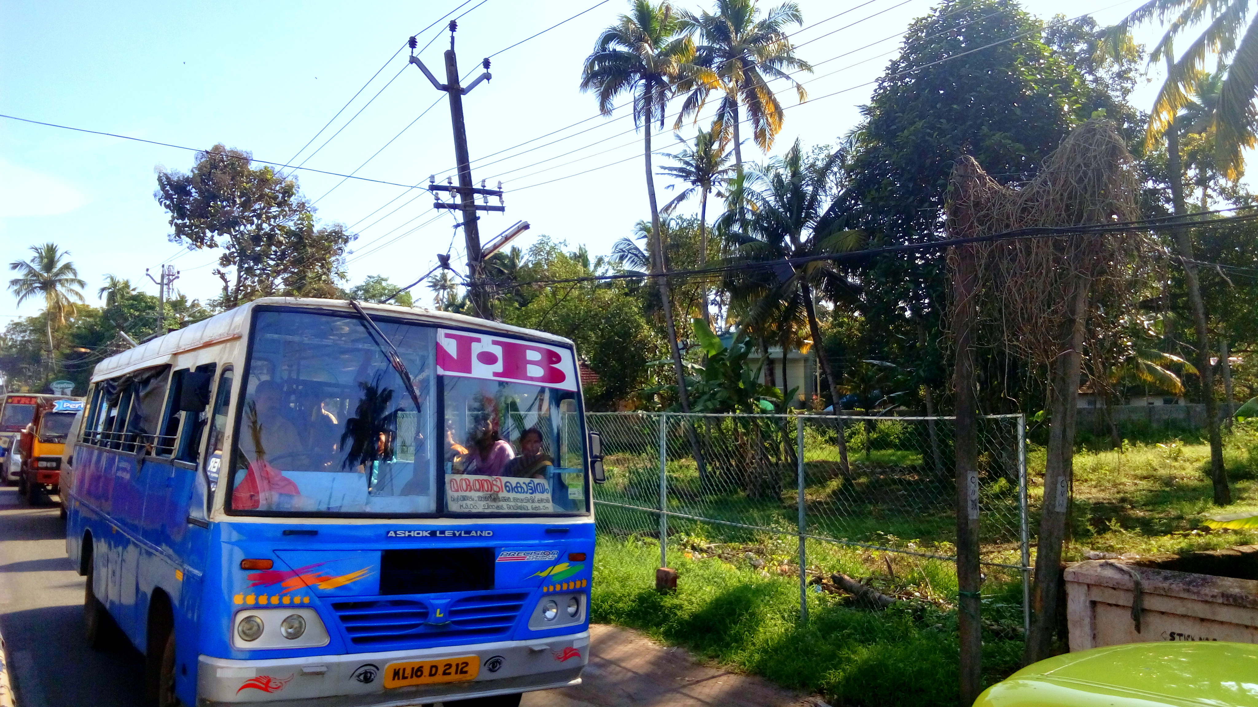 Kollam city is served by private city bus services. They are Blue in color.